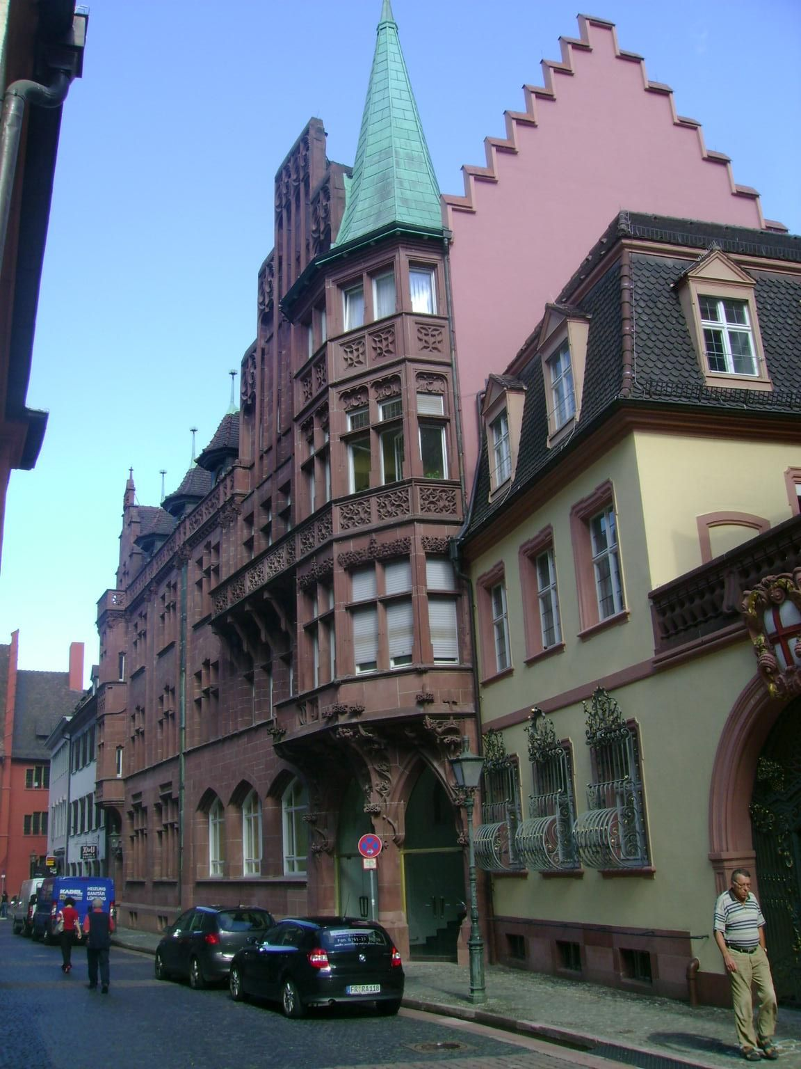 Freiburg, Baden-Württemberg, Germany